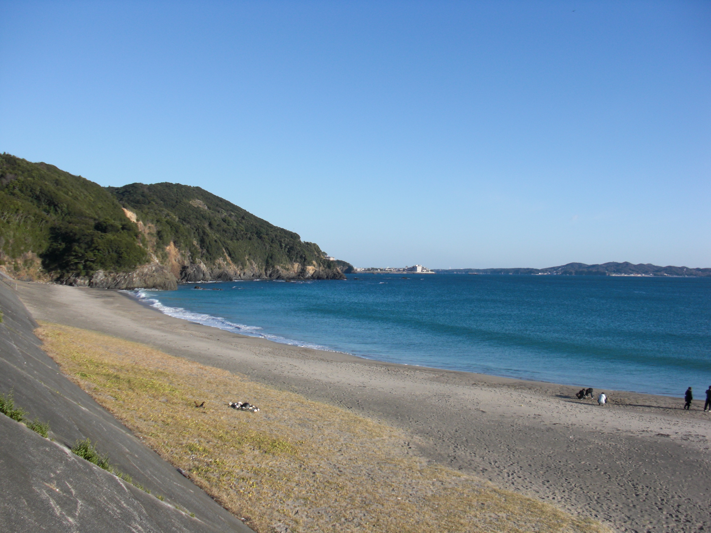 This is a landscape of Nambari Coastline Park, which is located in Hamajimacho-Nambari, Shima, Mie, Japan.